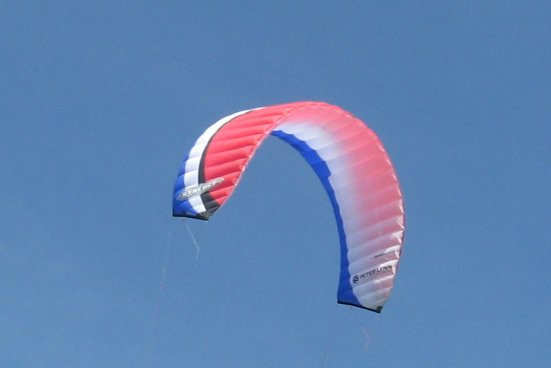 Arc Kite, Peter Lynn Synergy 15m^2